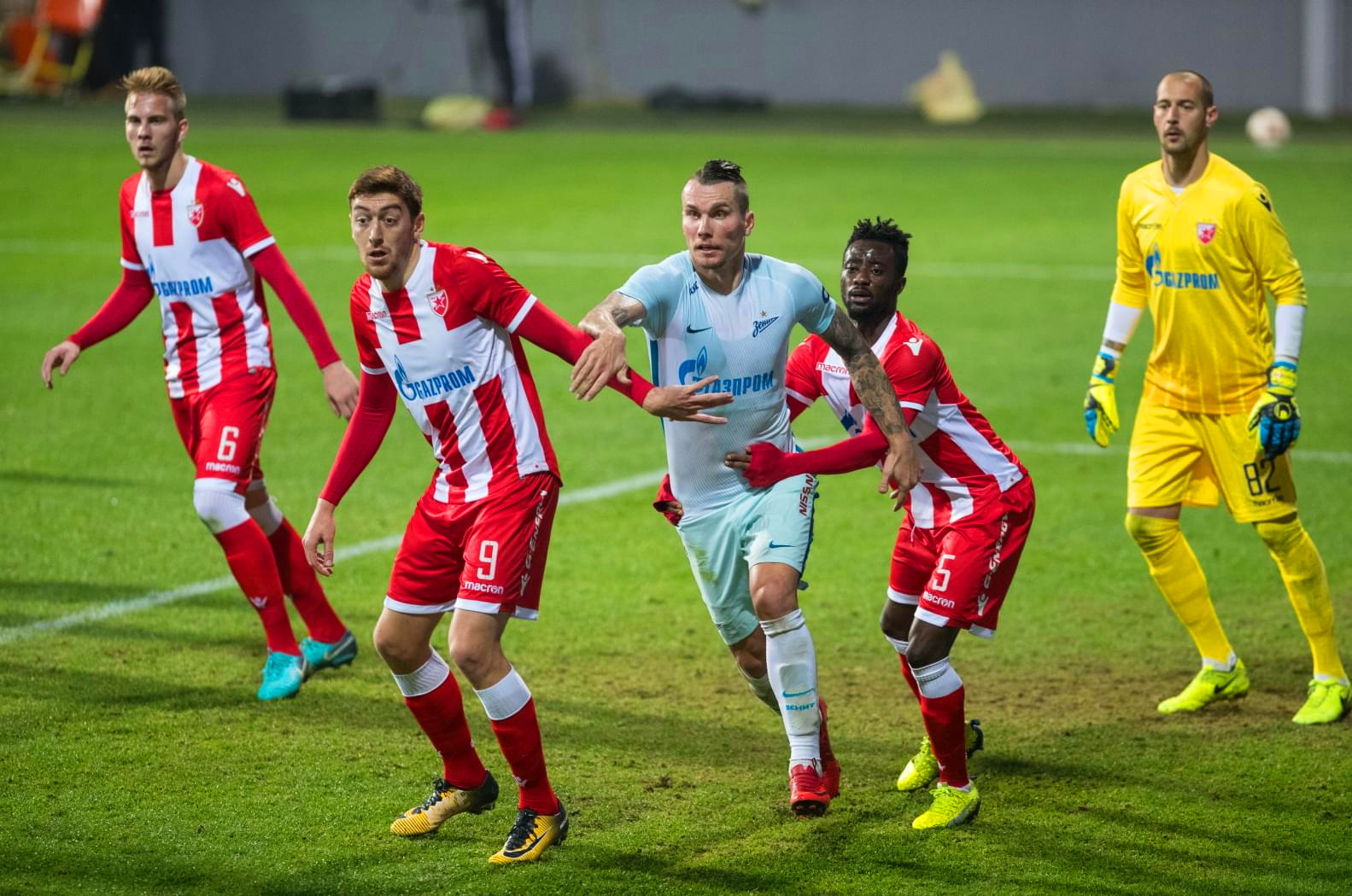 07.02.2018. Турция, Анталия, стадион «Мардан». Вторые зимние «Газпром» — тренировочные сборы: товарищеский матч «Зенит» — «Црвена Звезда».